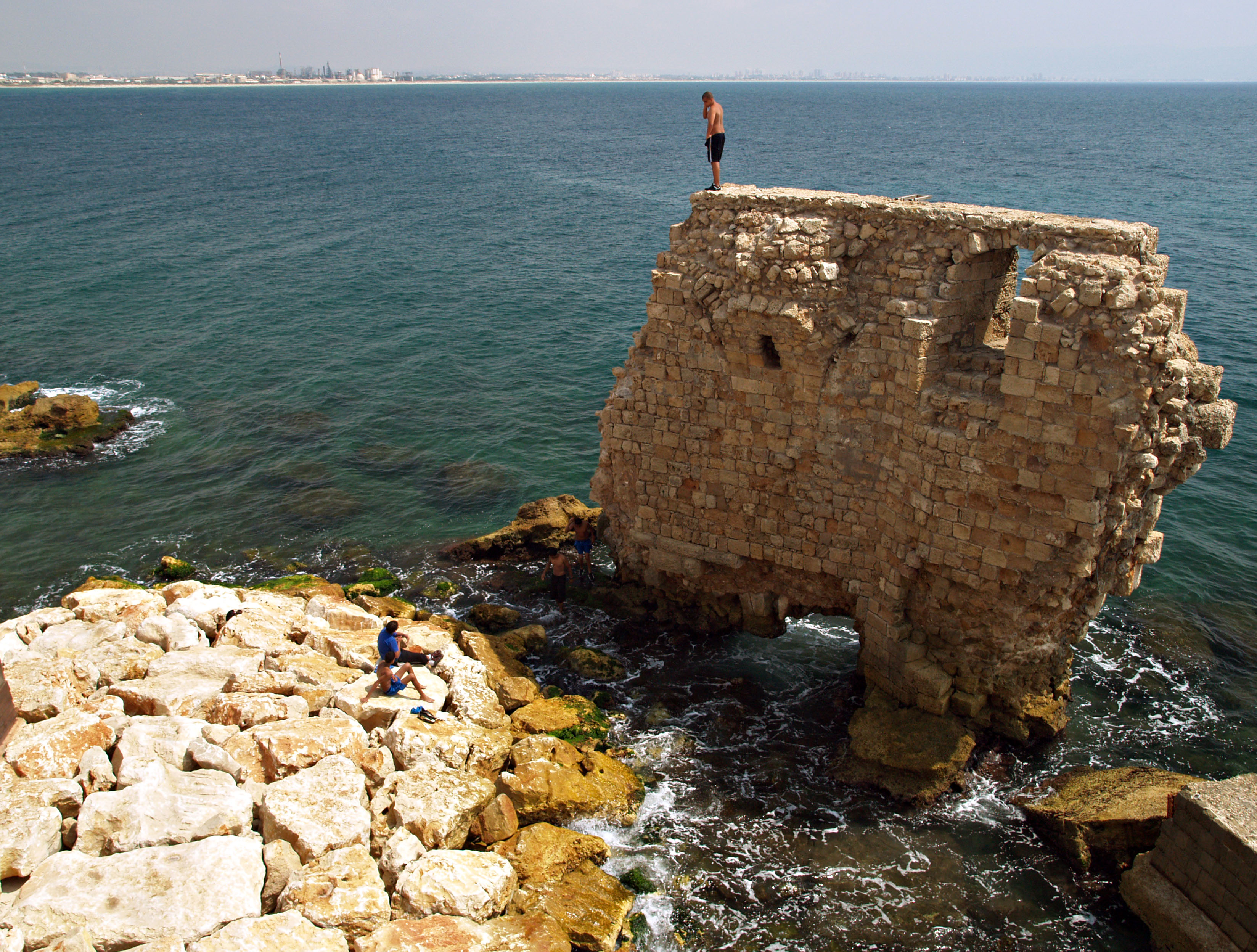 Pisan Harbor, Acre